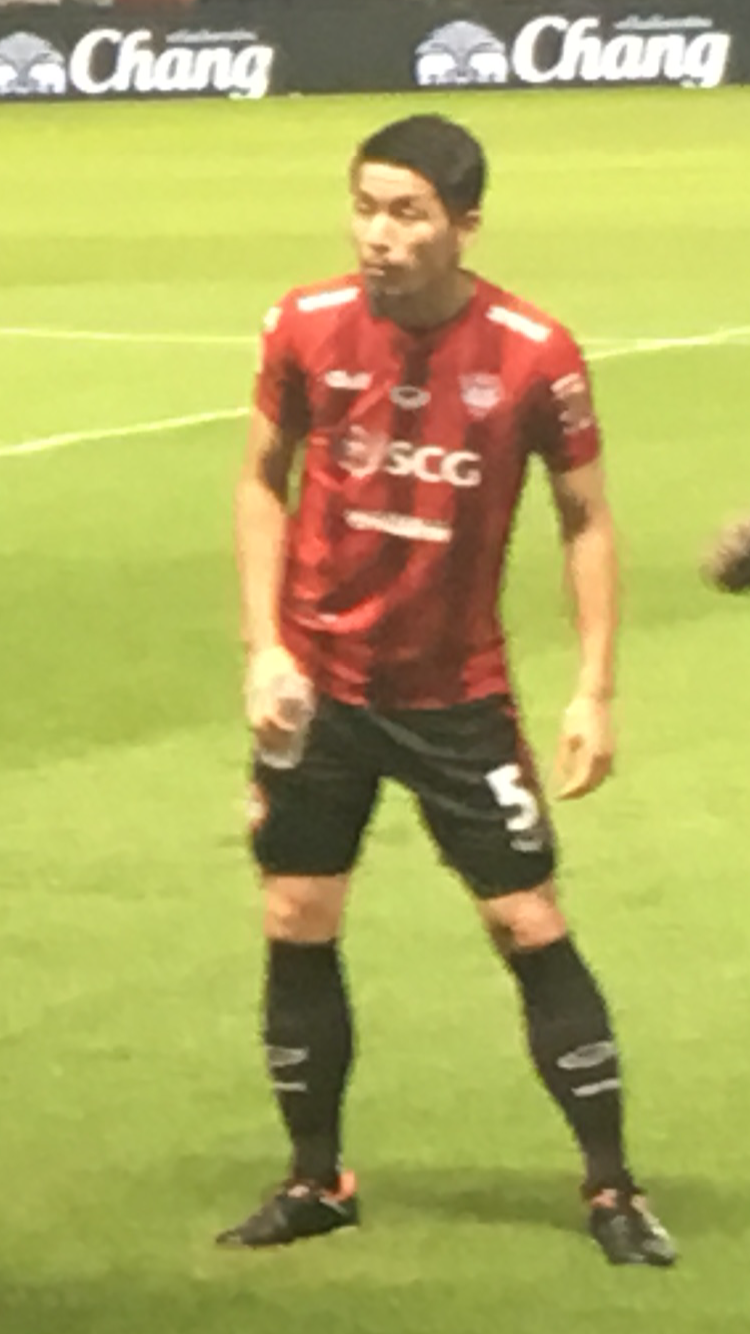 Naoki Aoyama 04-05-2018